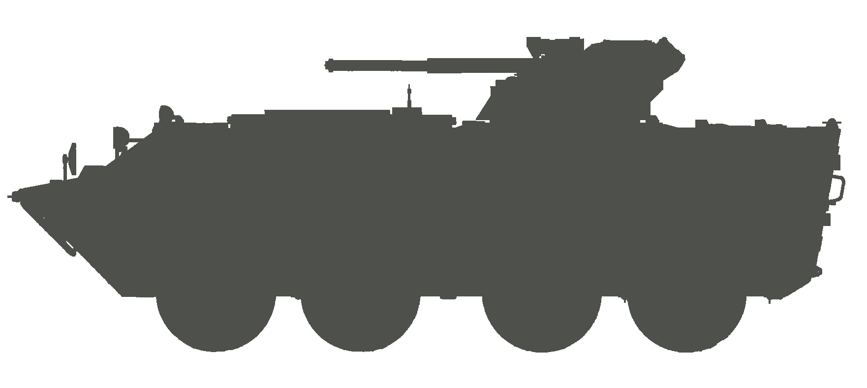 BTR-4 Fitted With the Shkval Module (Silhouette)